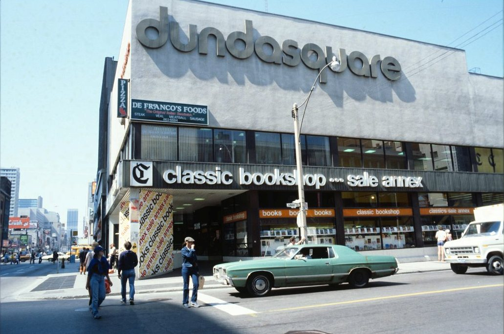 Looking north on Yonge Street at its intersection with the side street called Dundas Square. The building called Dundas Square, containing a Classic Book Store, has since been demolished to make way for a public square called Yonge-Dundas Square.